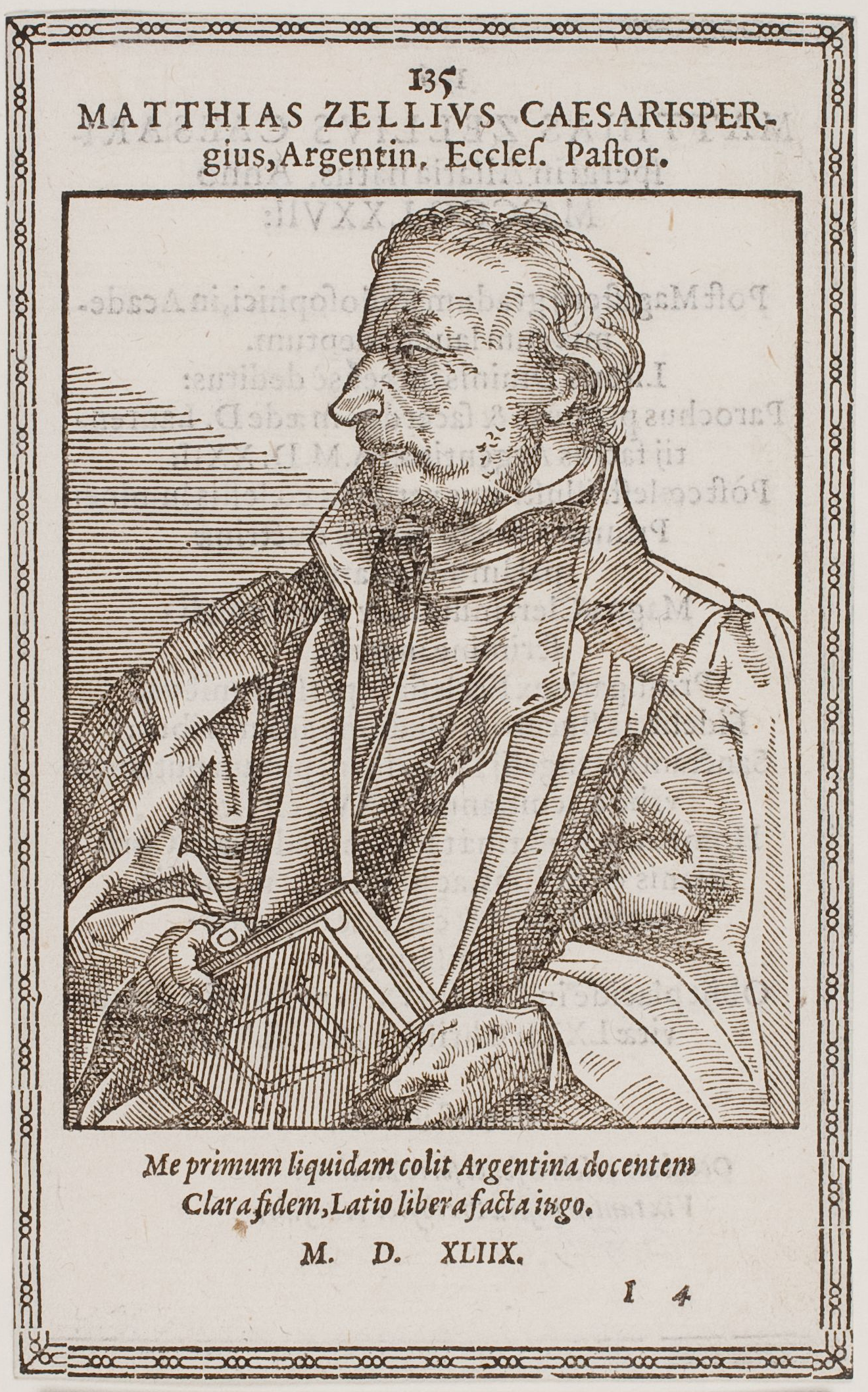 Portrait of Matthew Zell